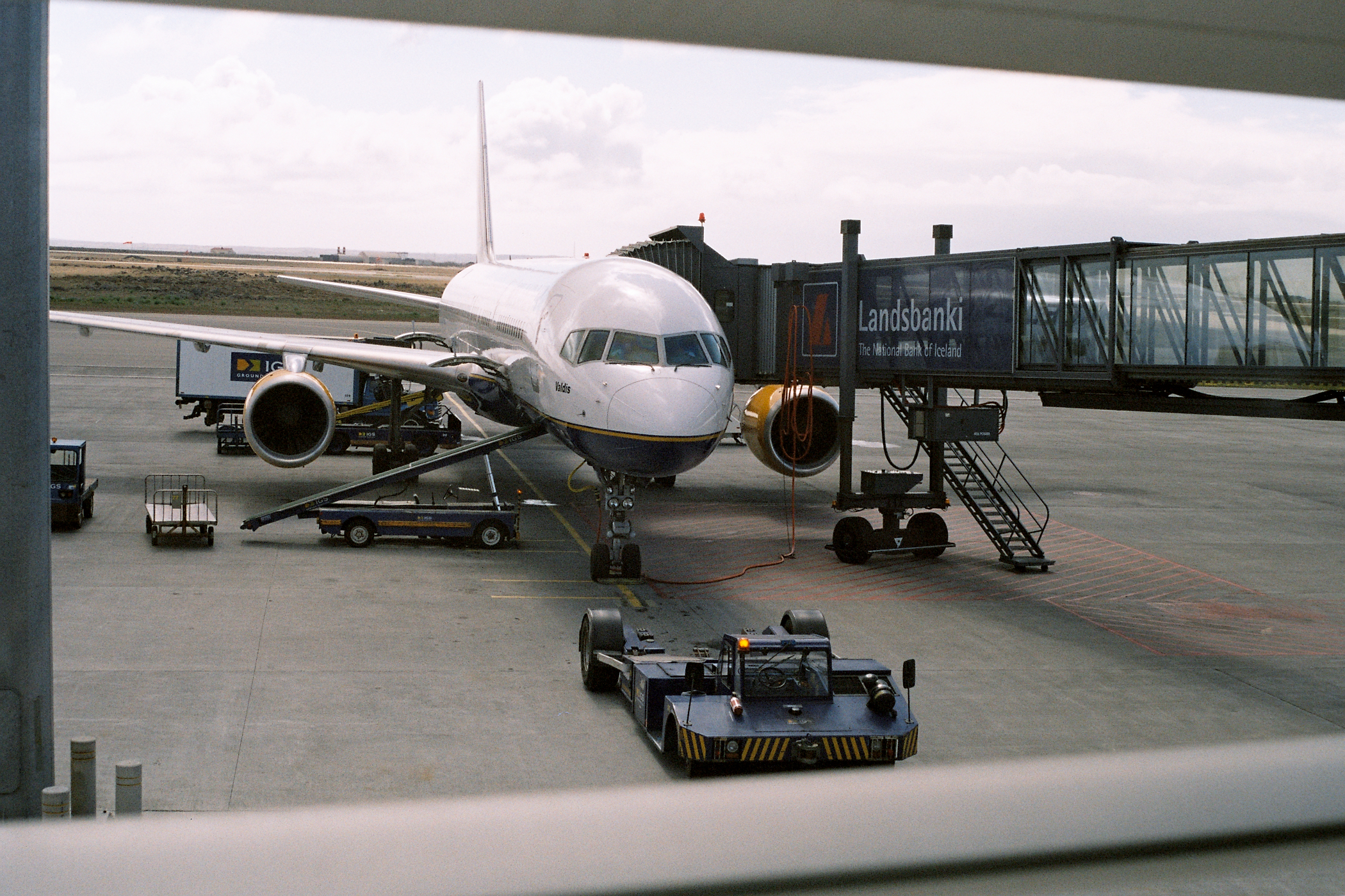 Boeing 757-200 in Iceland Air livery. Taken by me. Not a good picture, but nevertheless it shows connections and airport equipment.